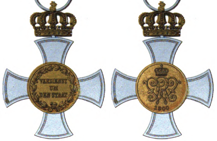 Prussian Cross of the General Honor Decoration with crown